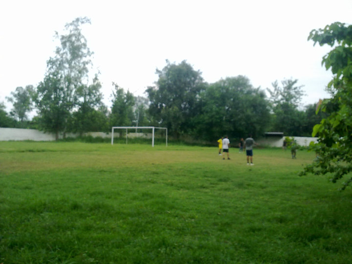 IIT Ropar